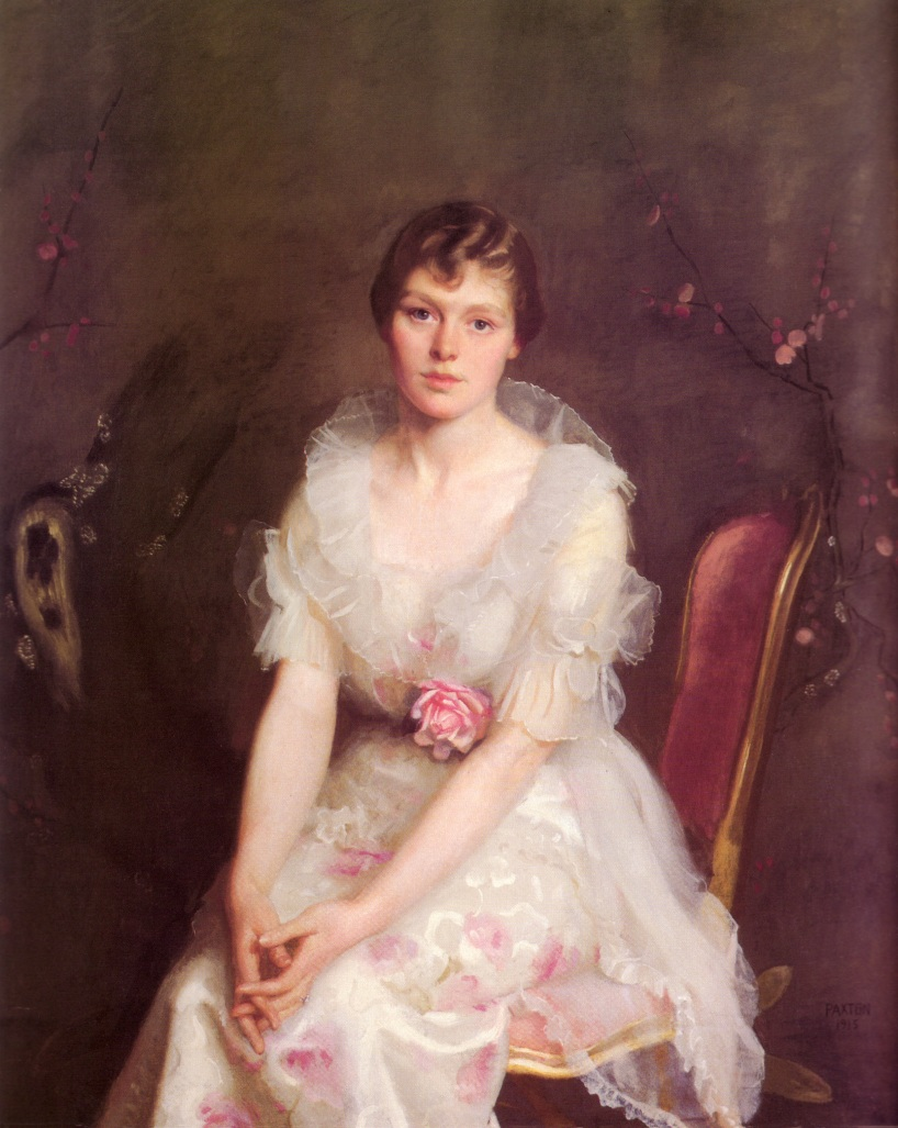 Portrait of Portrait of Louise Converse (Mrs. Junius S. Morgan III)